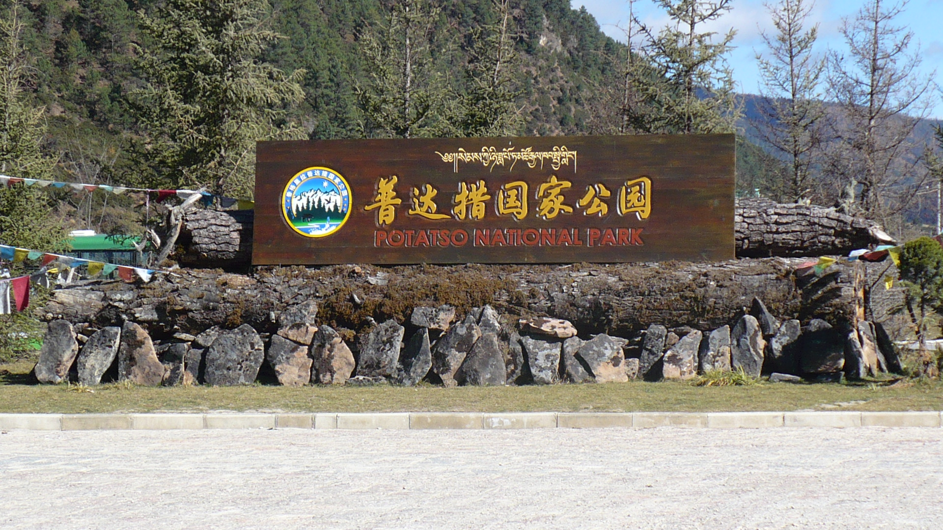 Potatso (Pudacuo) National Park, Diqing